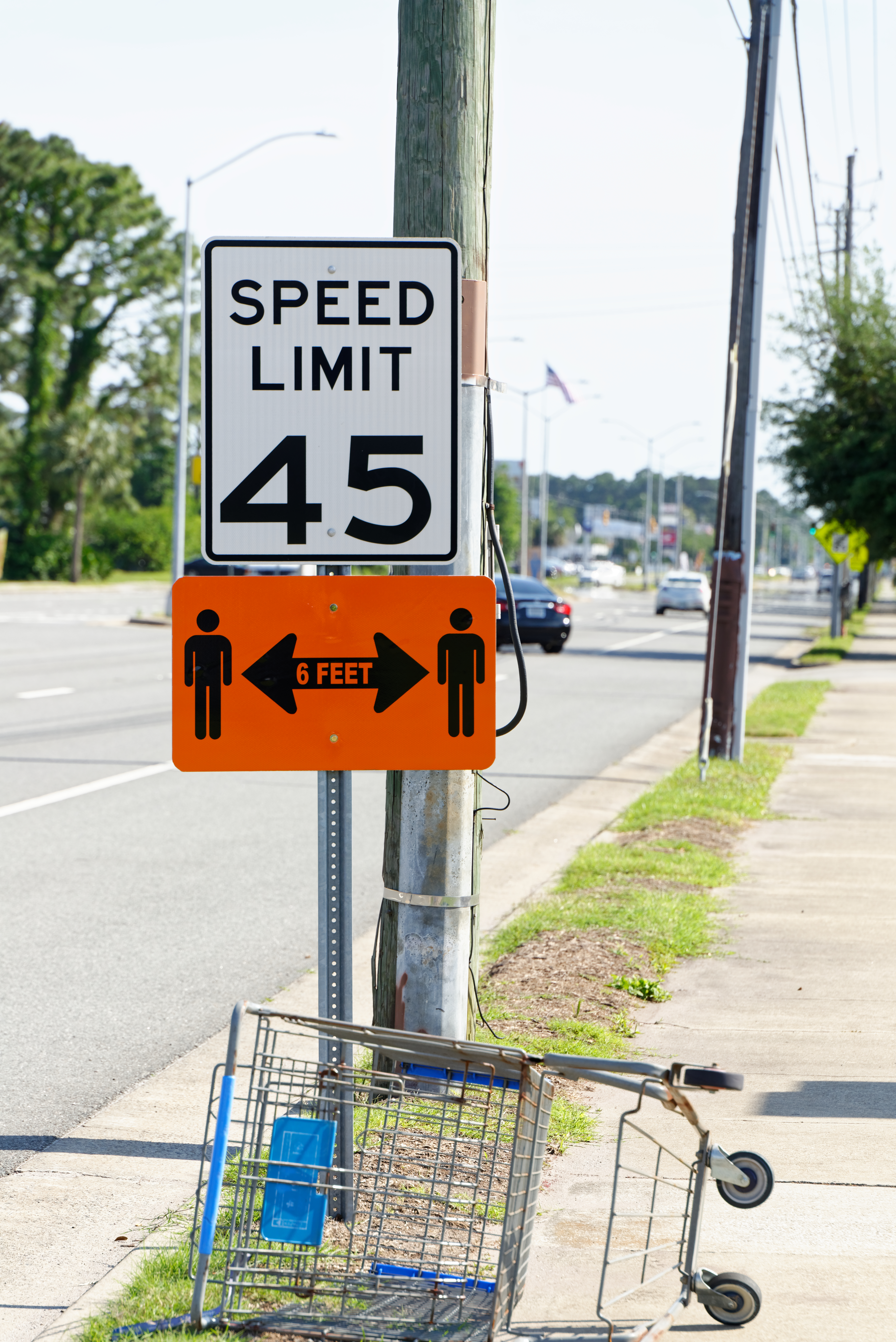 COVID-19 guideline sign in Brunswick, Georgia, US with COVID-19 guidelines